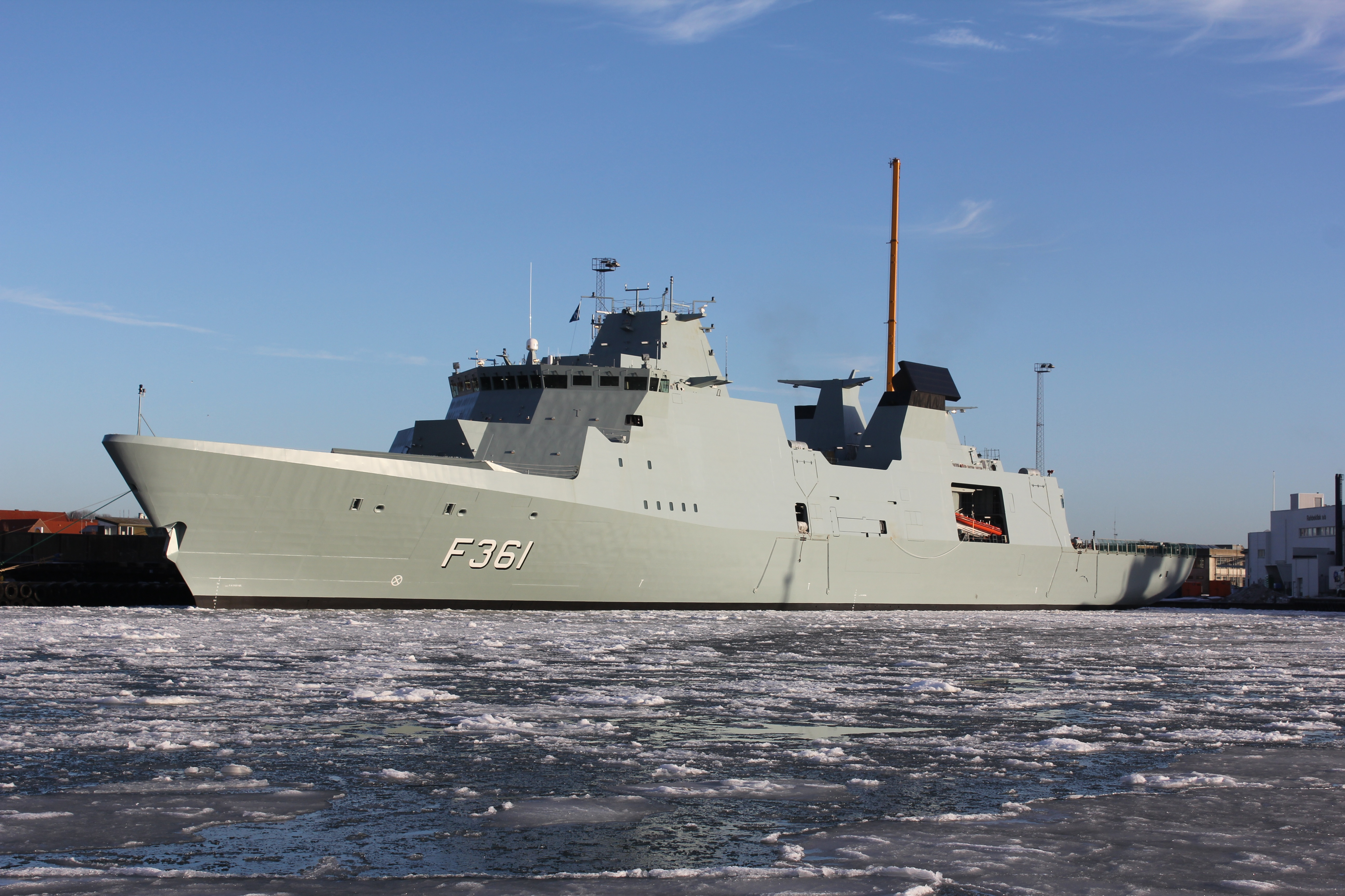 IVER HUITFELDT in Fredericia, Denmark - January 2011